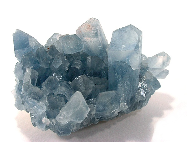 Celestine Locality: San Agustín Mine (San Augustín Mine), Ramos Arizpe (Arizpe), Municipio de Ramos Arizpe, Coahuila, Mexico (Locality at ) This locality is best known for its world class pyrargyrite specimens, not aesthetic clusters of light blue-gray, lustrous and translucent celestine. The largest crystal measures 4 cm in length and they all have a solid blue color. Mexican celestine specimens are just not seen that often, come to think of it, except for the white crystals from Tule. 7.7 x 4.8 x 4.7 cm